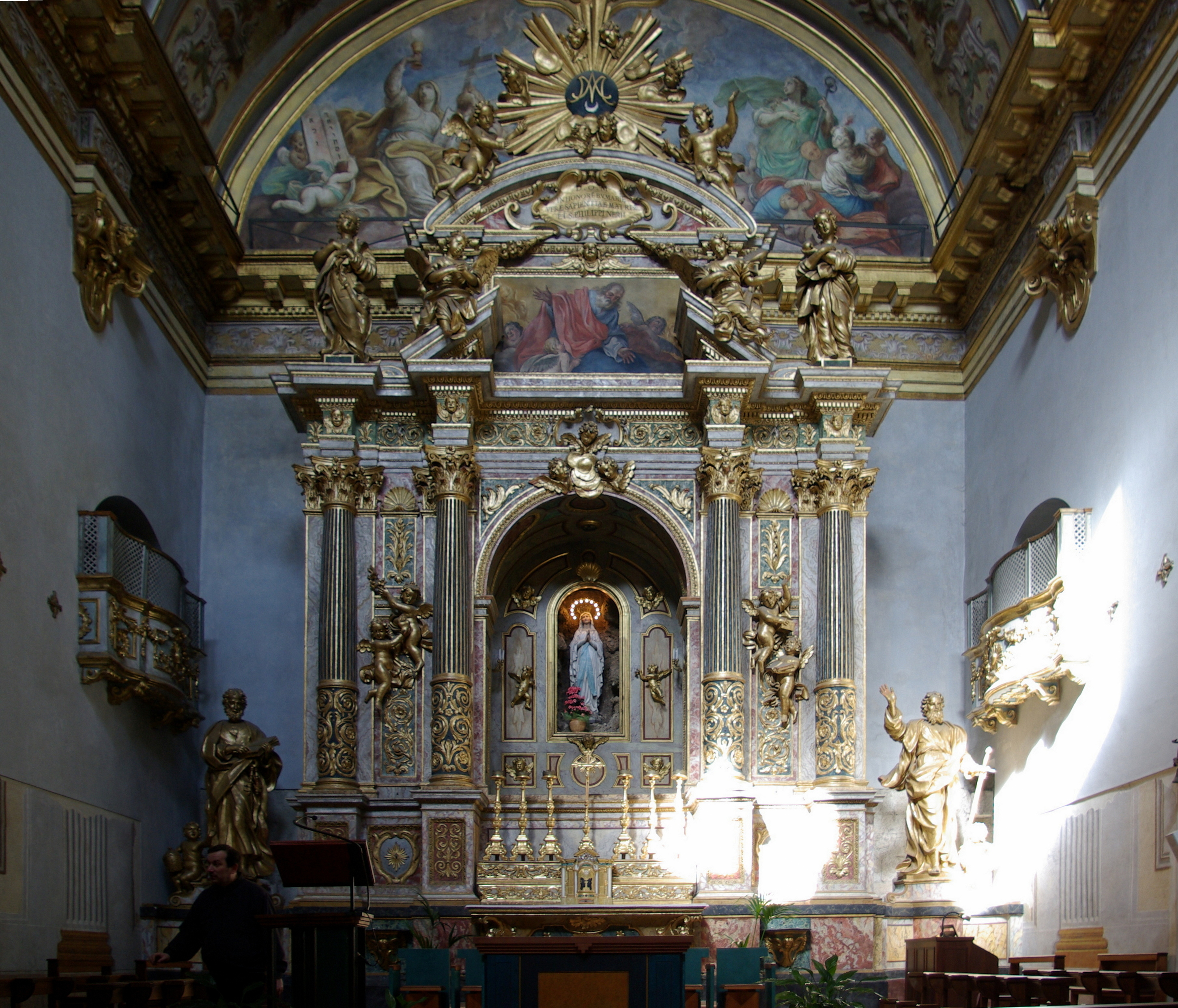 Assisi, Santa Maria sopra Minerva